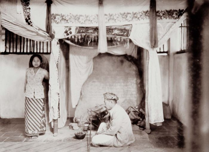 Photo. Stone with inscriptions, the batu tulis